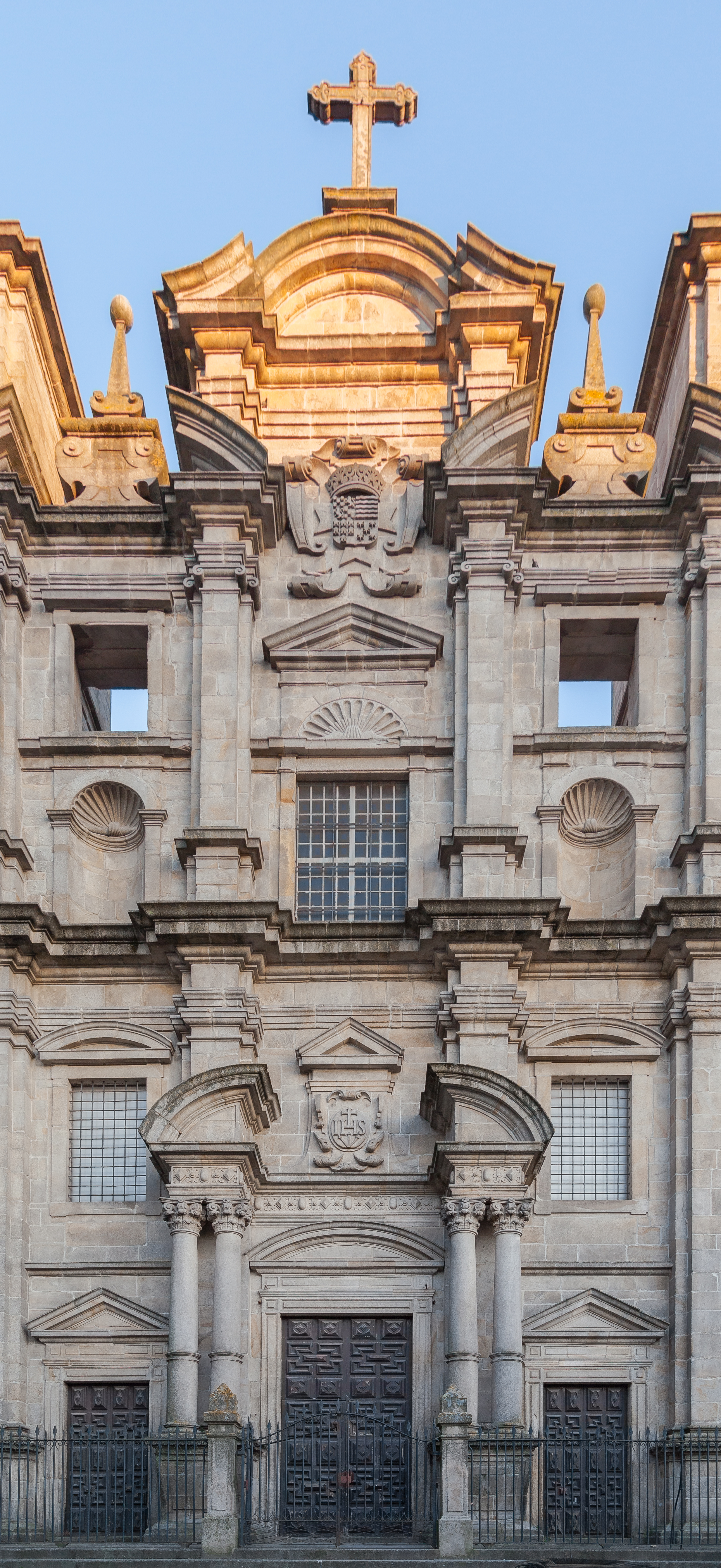 Convento dos Grilos, Porto, Portugal